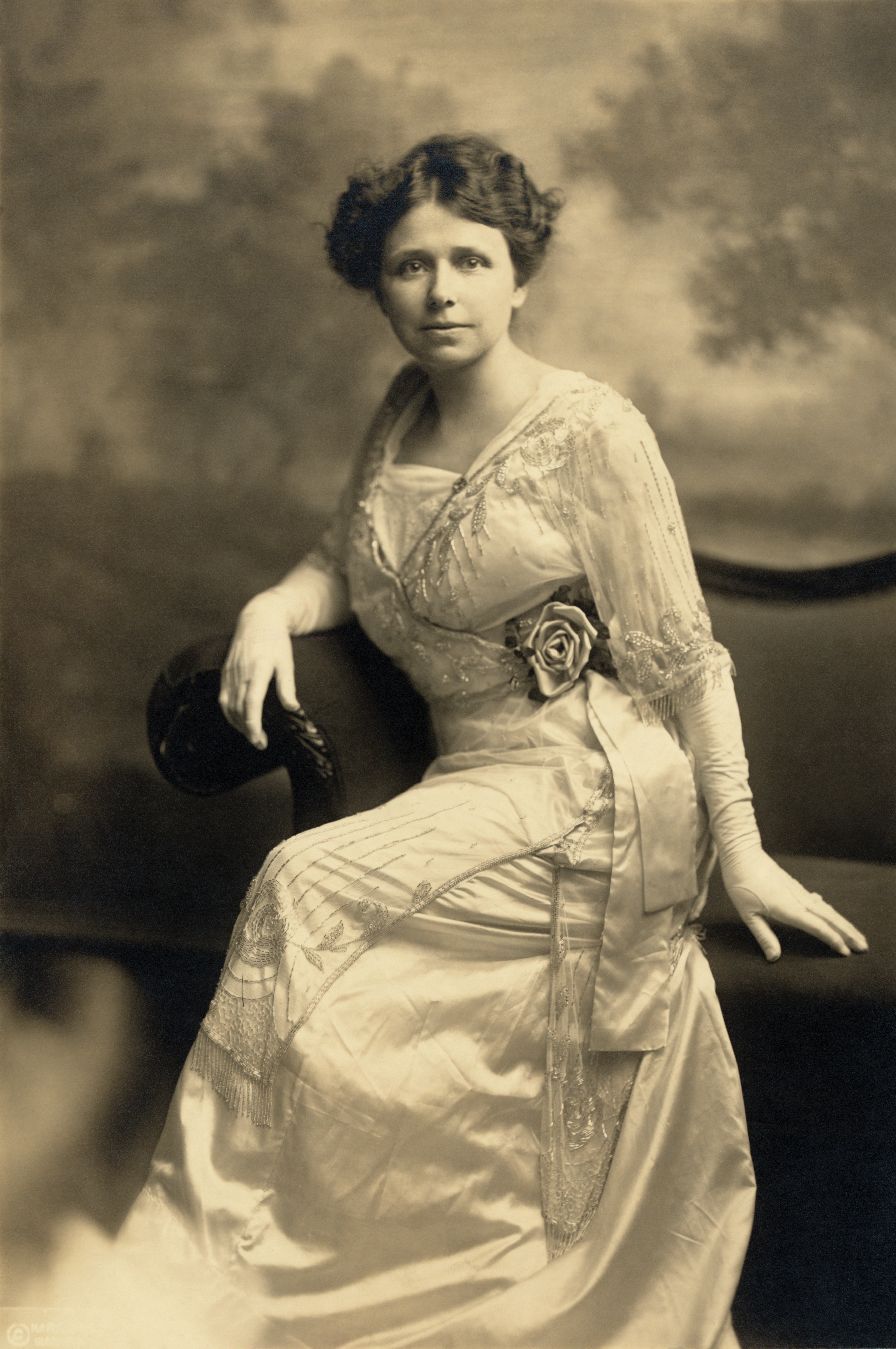 Hattie Caraway, later first female member of United States Senate (from Arkansas). Full-length studio portrait, sitting, facing front. As stated on the Library of Congress information page, this photo was registered under reference J192930 with the U.S. Copyright Office. Knowing that, proof this was by Harris & Ewing can be found on page 201 of Catalogue of Copyright Entries, Part 4, New Series, Volume 9, for the year 1914 Nos. 1-4.